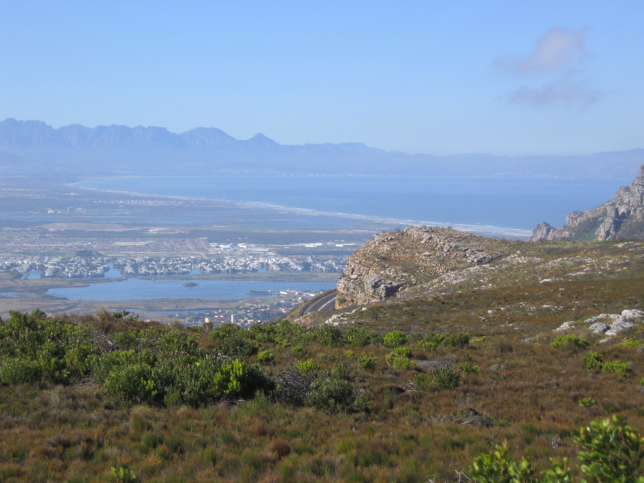 View from Ou Kaapse Weg ("Old Cape Way") near Muizenberg, Cape Town, South Africa. Looking east, one can see False Bay and the Helderberg mountains in the distance.